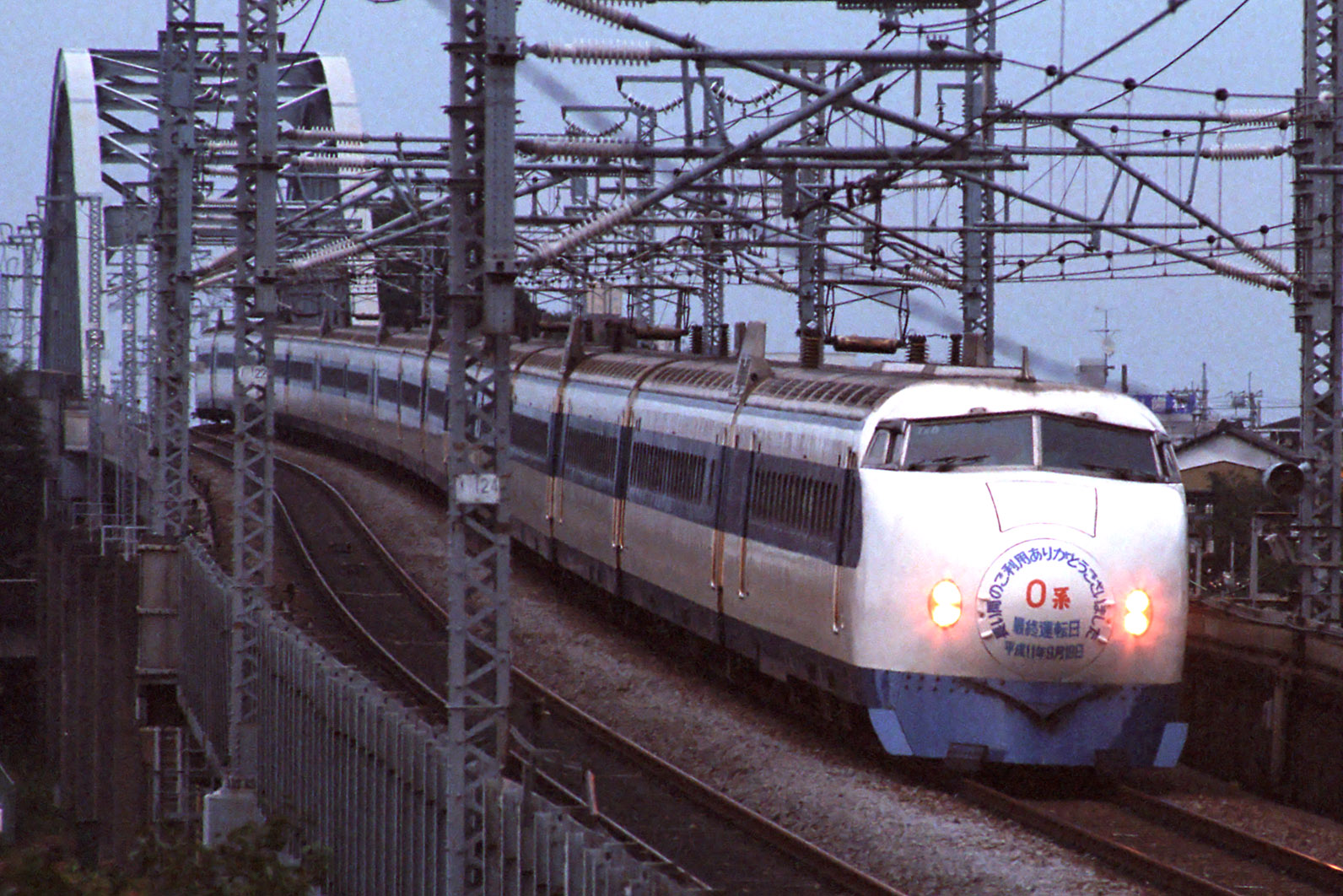 16-car 0 series set YK8 on Tokaido Shinkansen "Kodama" service with "Arigatō 0 Series" sticker near Magome between Tokyo and Shin-Yokohama, 18 September 1999